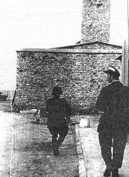 Soldiers from "Giewont" company of "Zośka" Battalion secure Gęsiowka, a German-Nazi prison camp in Warsaw after takeover. In the back crematorium building.